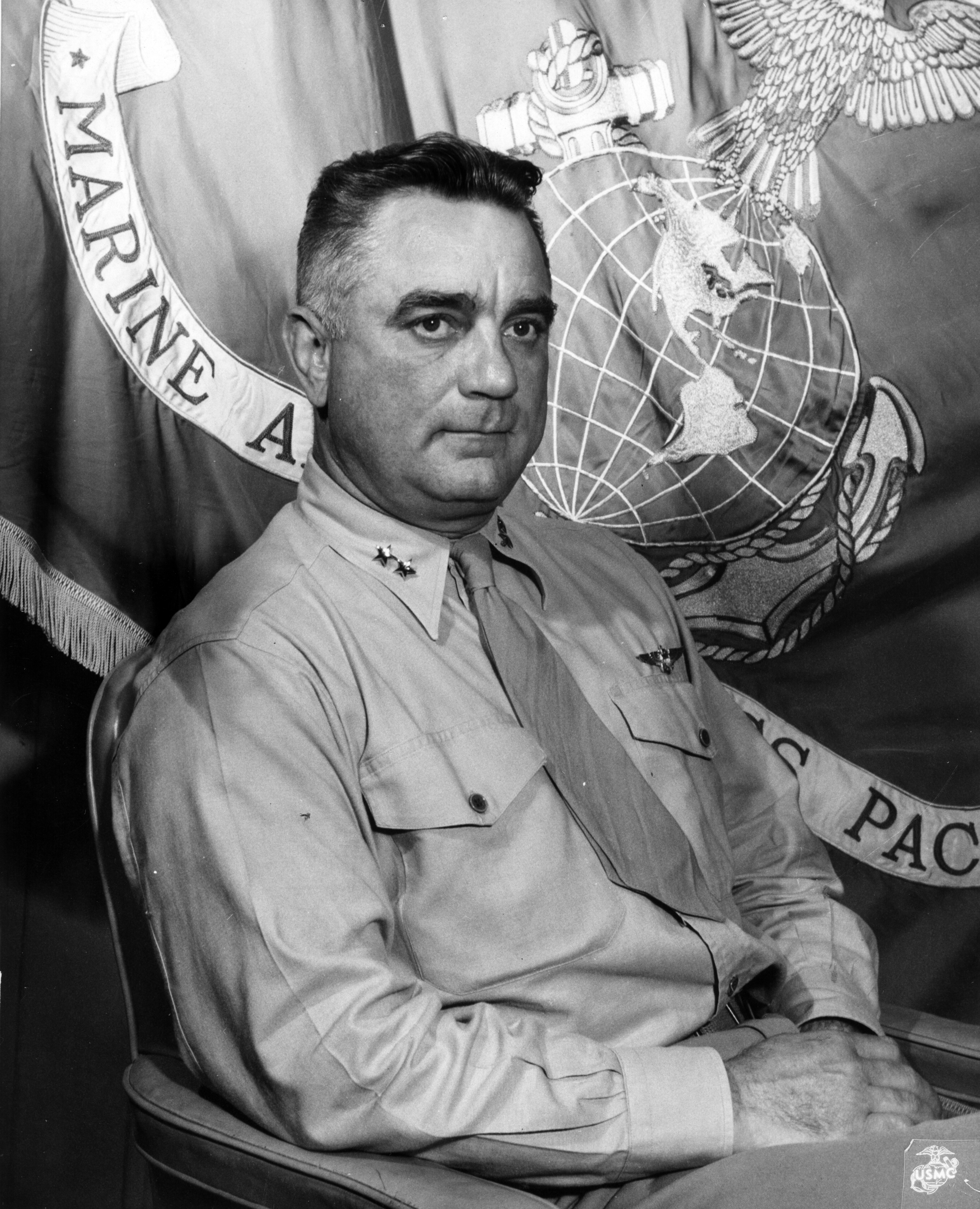 James Tillinghast Moore (September 5, 1895 - November 10, 1953) was a decorated Aviation Officer of the United States Marine Corps with the rank of Lieutenant General. He is most noted for his service as Commanding officer of the 2nd Marine Aircraft Wing during World War II.